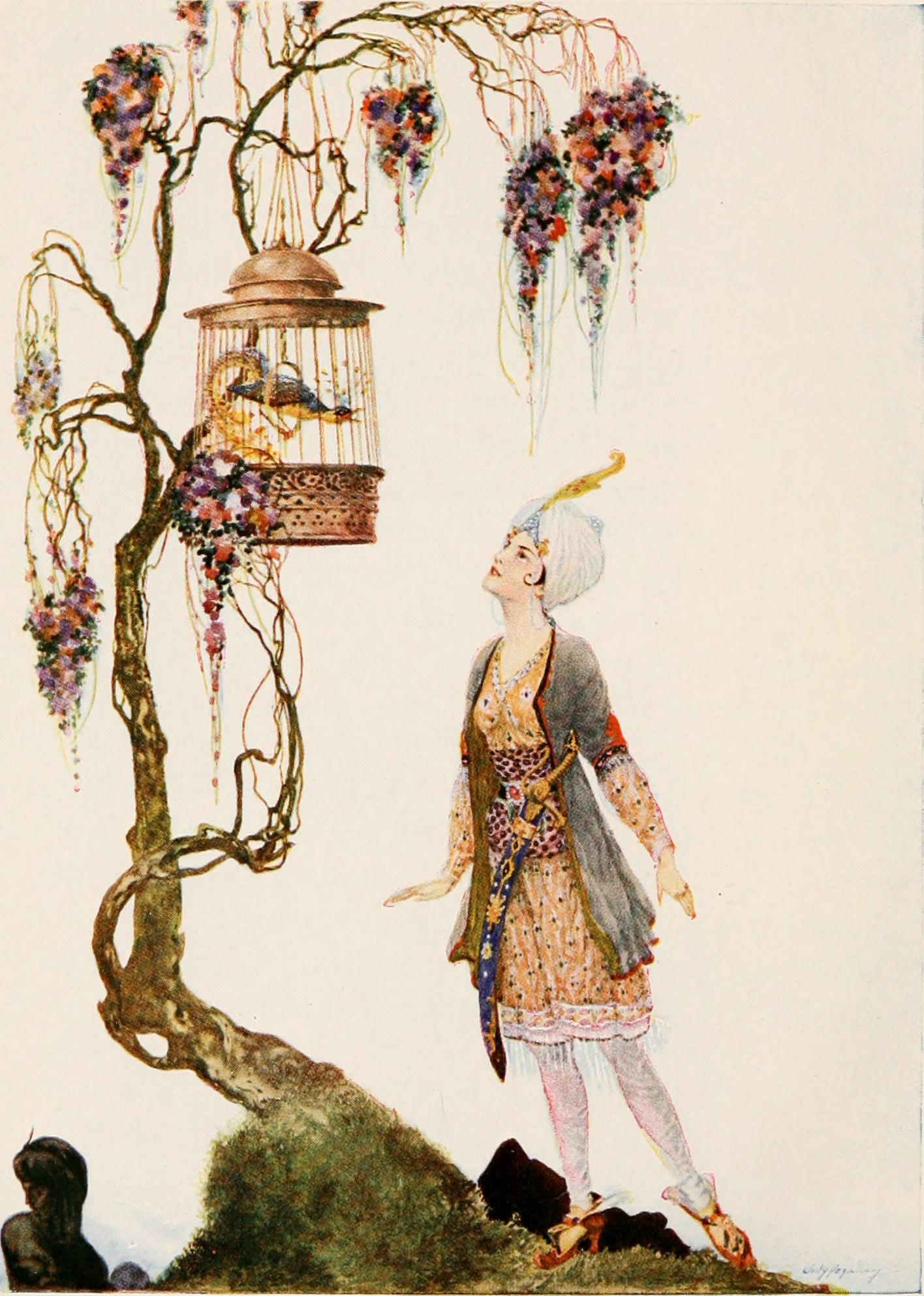 Illustrations from More tales from the Arabian nights (1915)